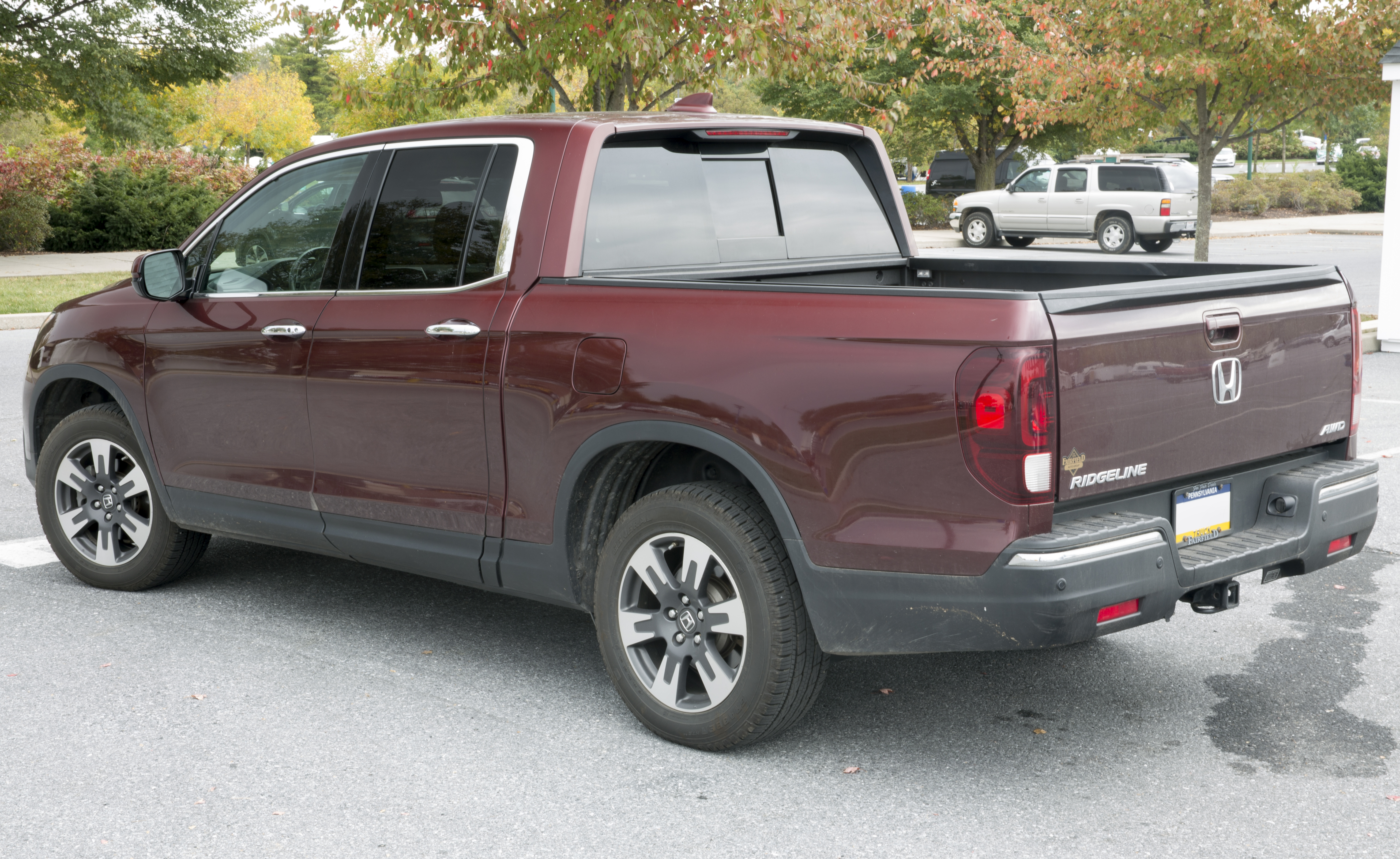 A 2017 Honda Ridgeline RTL-E (Deep Scarlet Pearl) in the Swap Meet area at Hershey 2019.